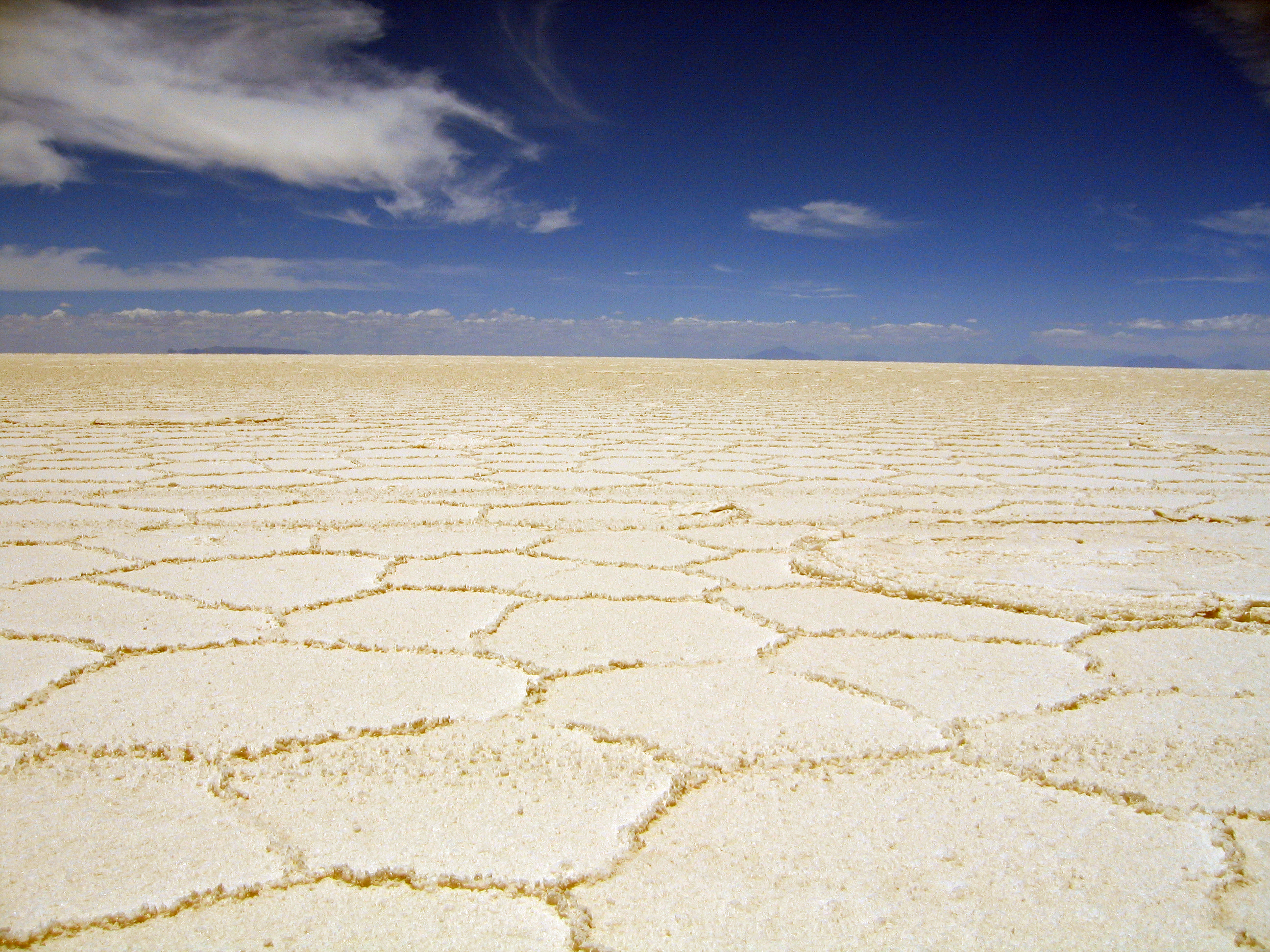 Salar de Uyuni Bolivia